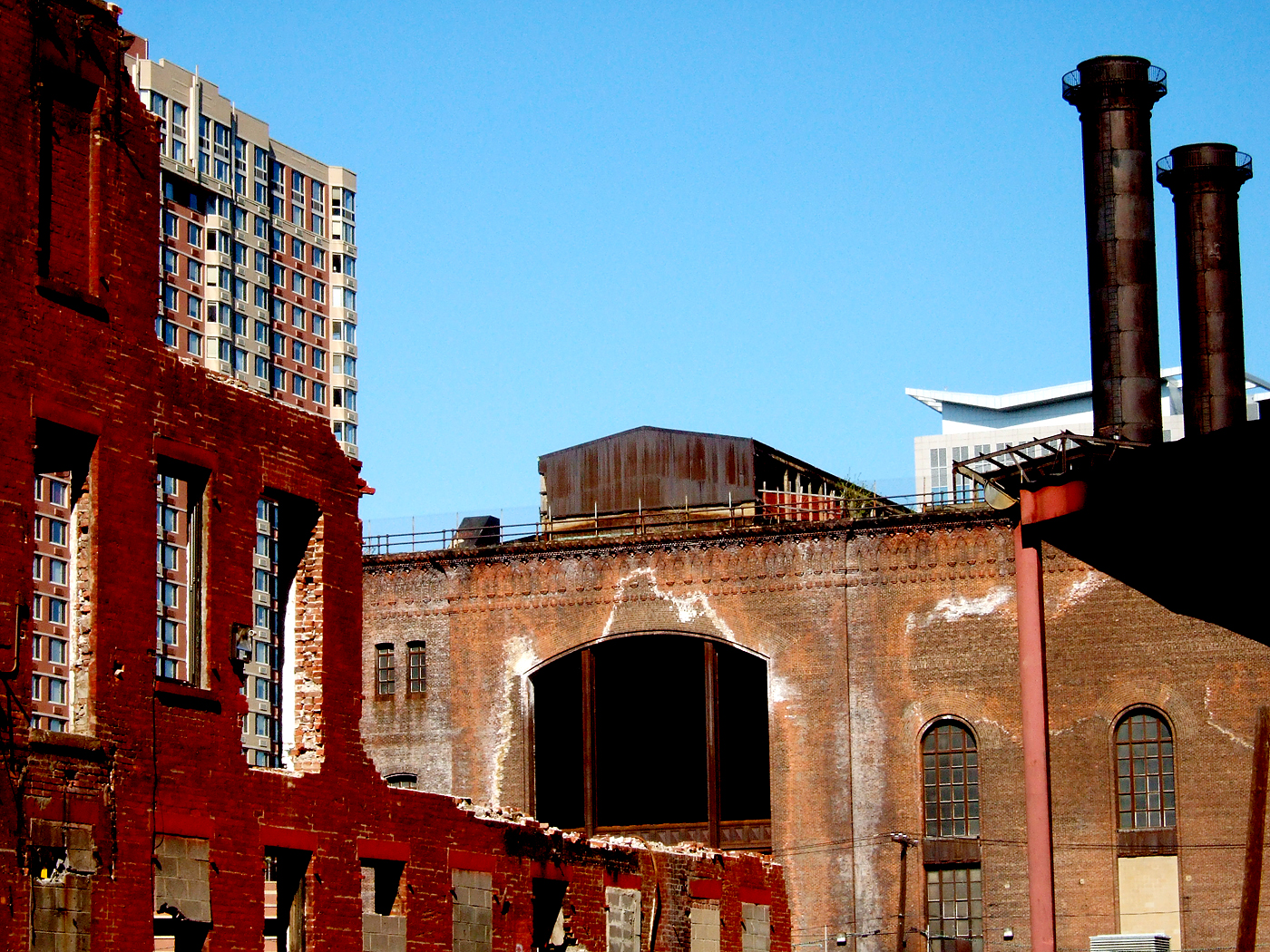 Urban renewal is going on in Jersey City. Old ruins like these are replaced with new buildings like the one standing behind.